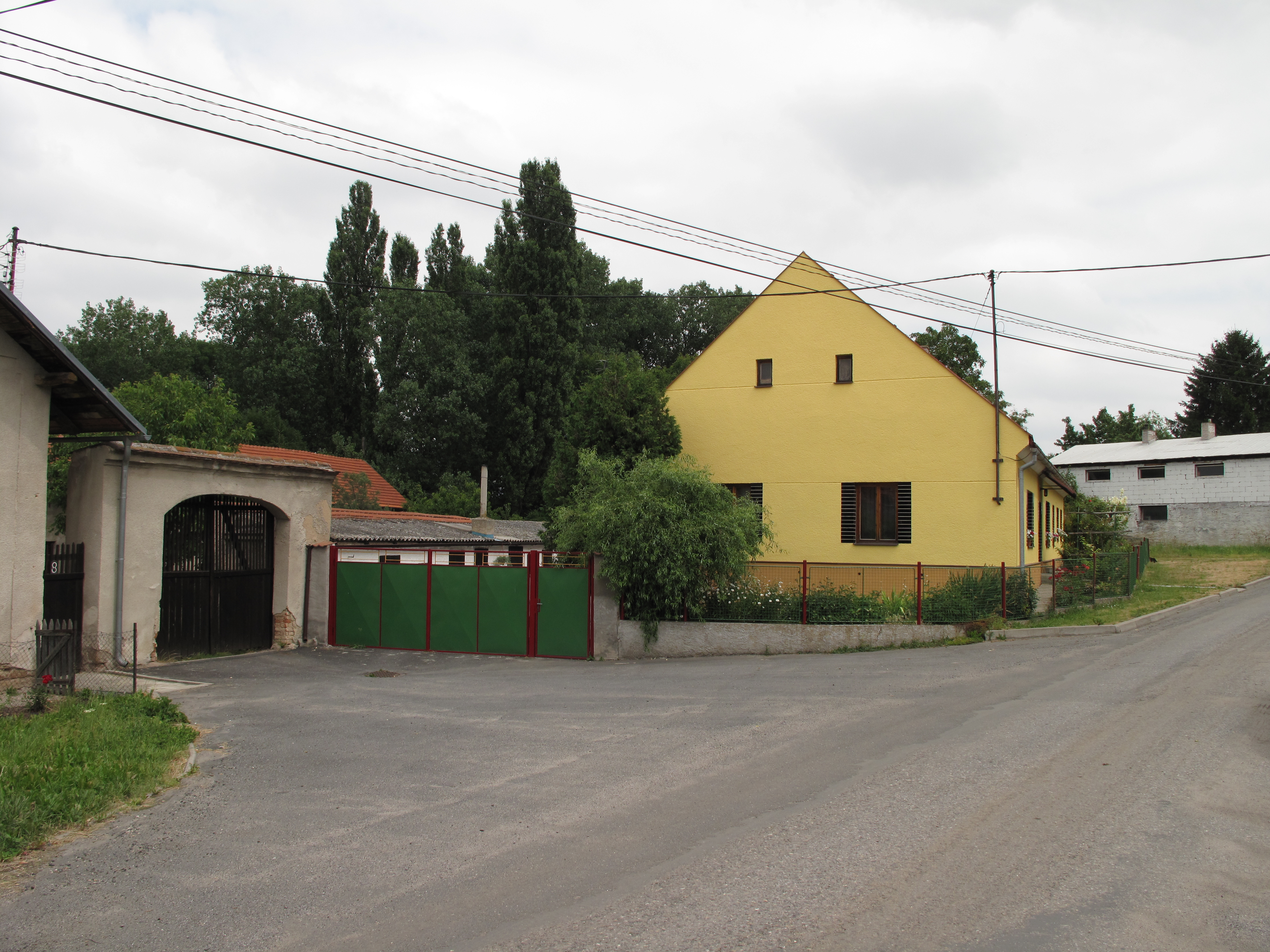 This photograph was taken within the scope of the second year of the 'Czech Municipalities Photographs' grant.